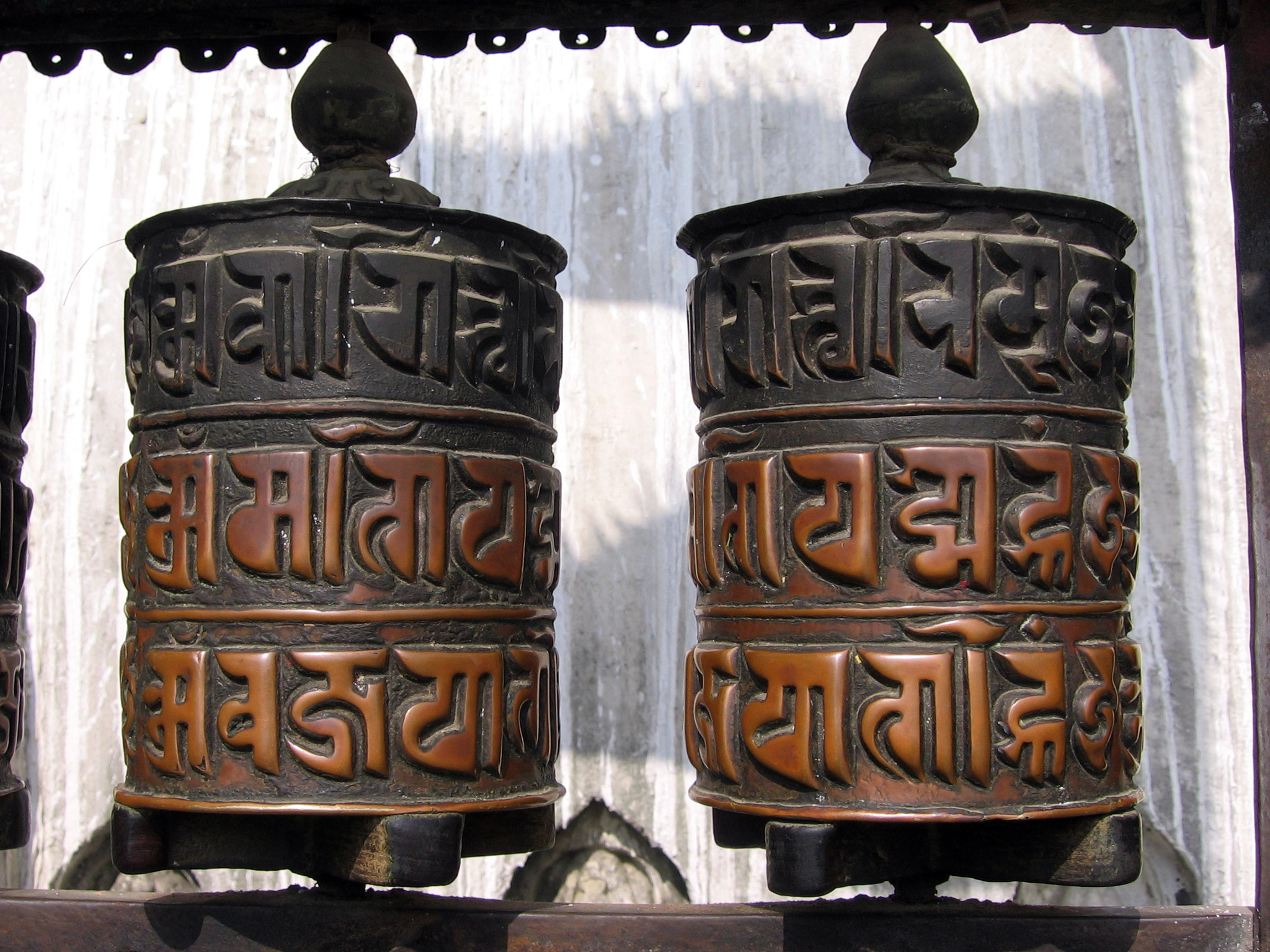 Prayer wheels at Swayambhu, Kathmandu depicting three Sanskrit mantras in Ranjana script: Top - oṃ vāgiśvara muṃ; middle - oṃ maṇipadme hūṃ; bottom - oṃ vajrapāṇi hūṃ.